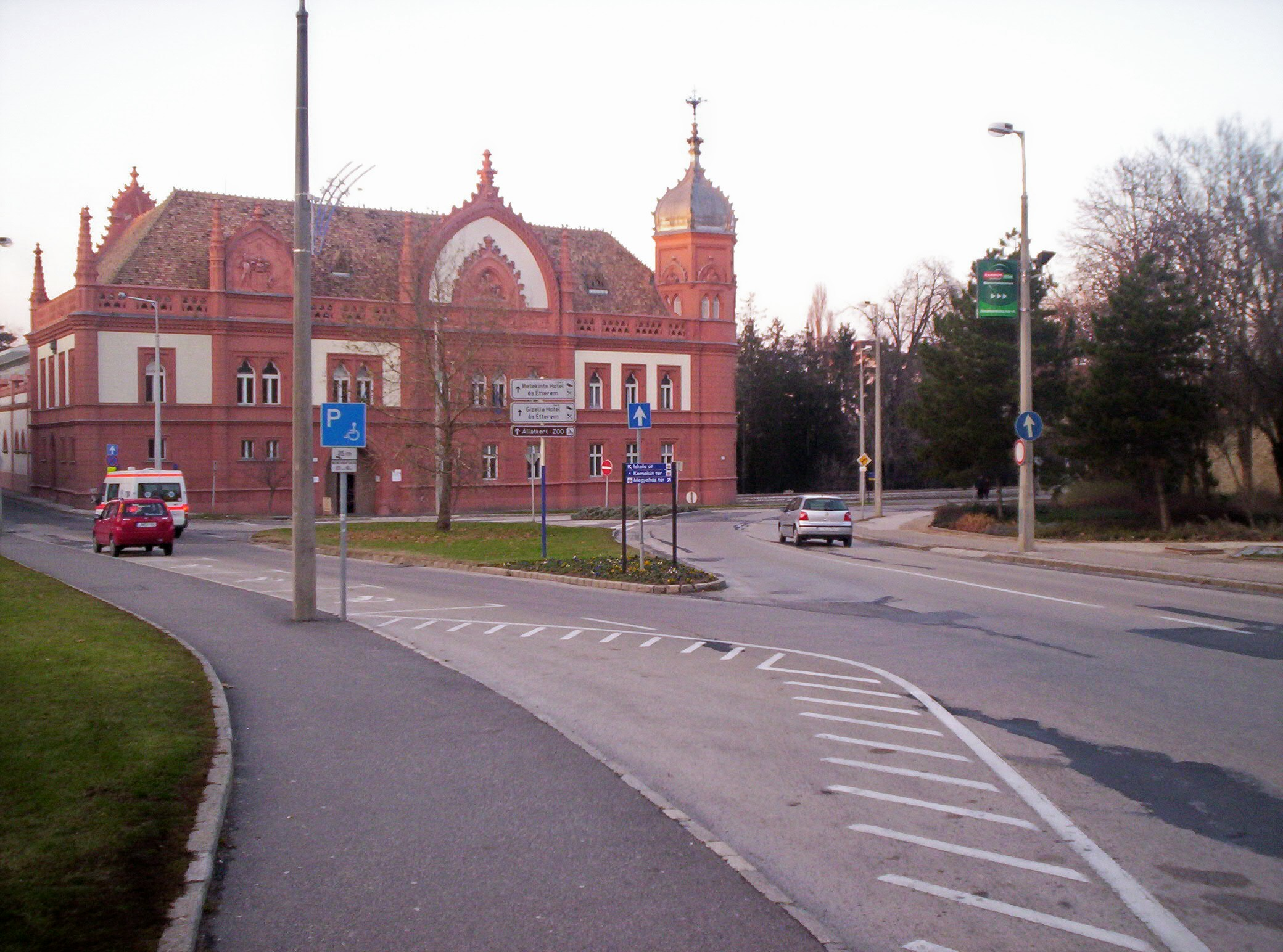 Description: Komakút Square, Veszprém